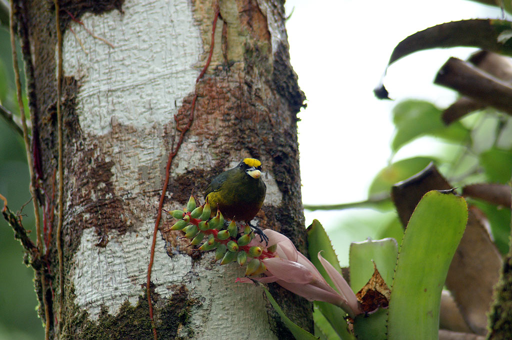 Olive-backed Euphonia, Gould's Euphonia